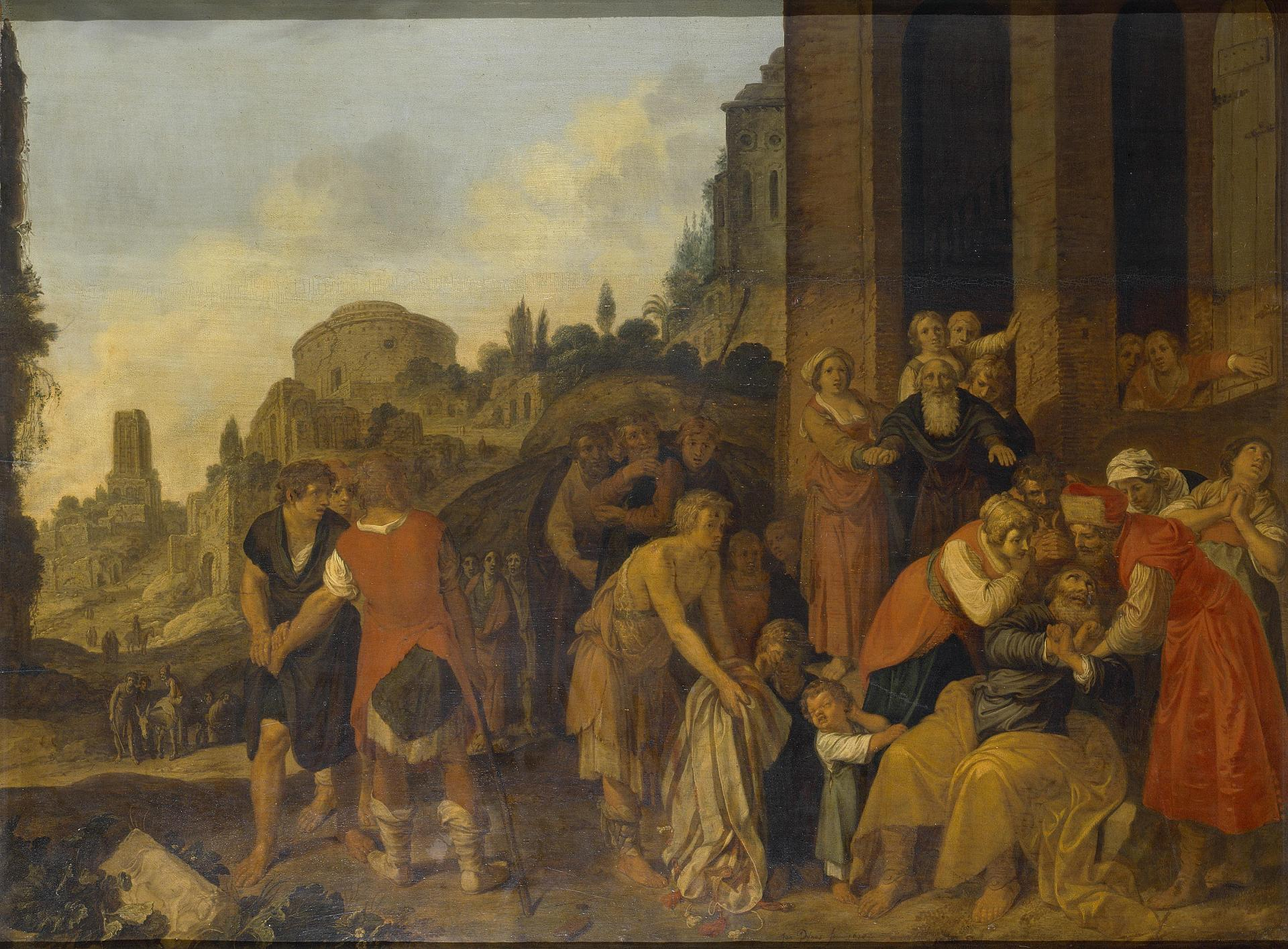 Joseph bewailed as dead by his father; the sons and daughters are unable to console him (Genesis 37:22-33)